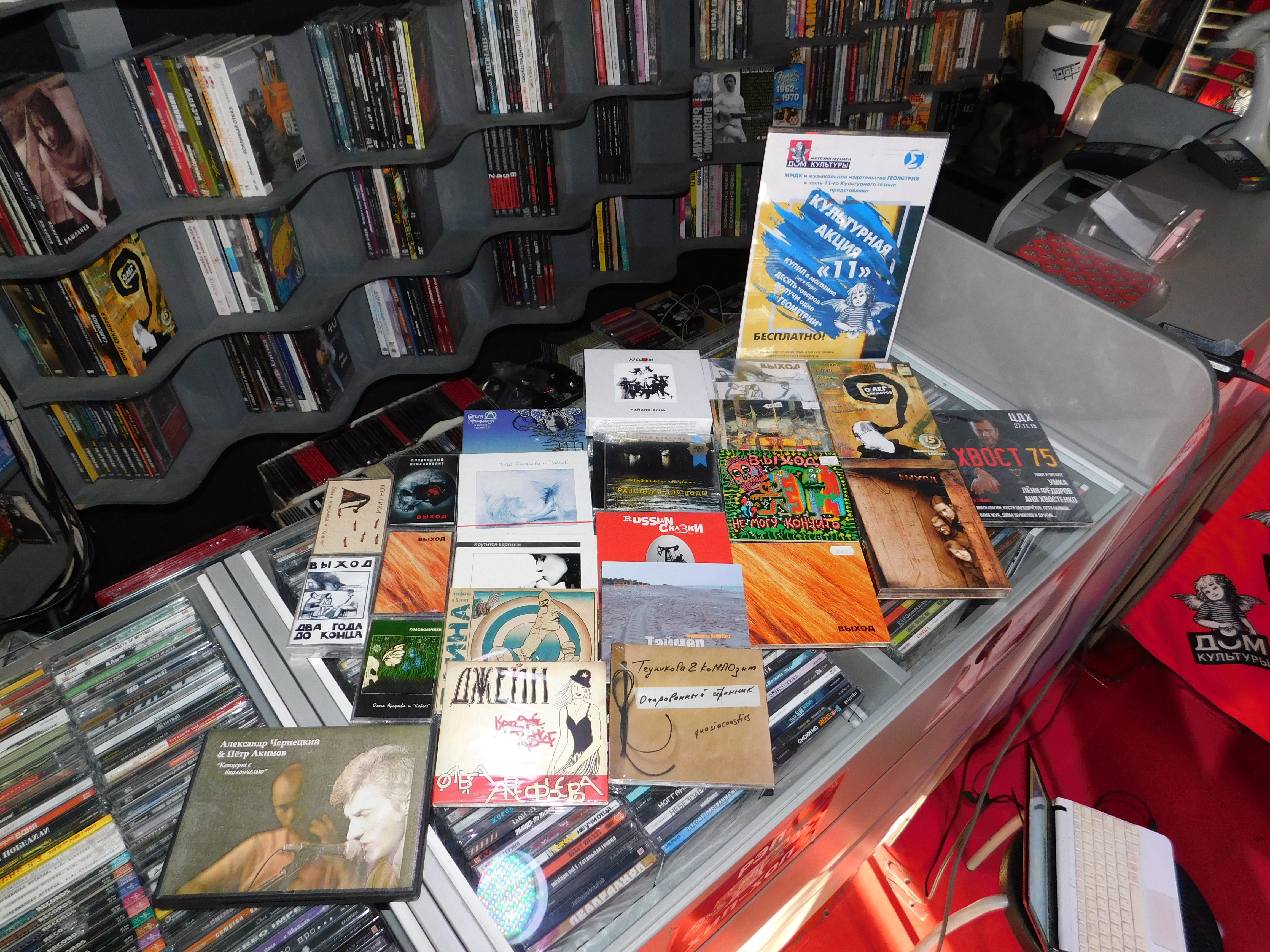 Petr Akimov in Dom Kultury (2018-04-29)